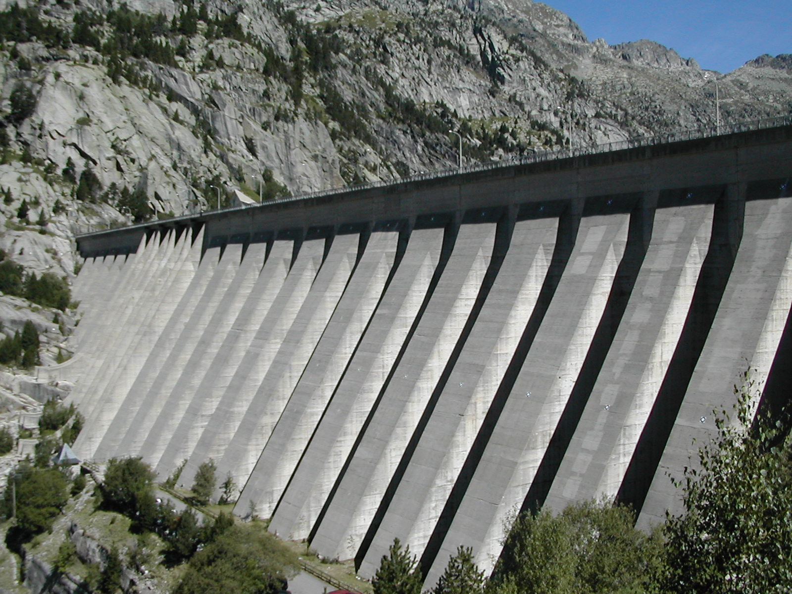 Author: David Gaya This is a picture of Cavallers Damm in the upper part of the river Noguera de Tord in Catalonia